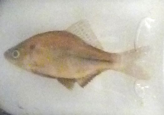 Specimen of Acheilognathus tabira tabira at Osaka Museum of Natural History